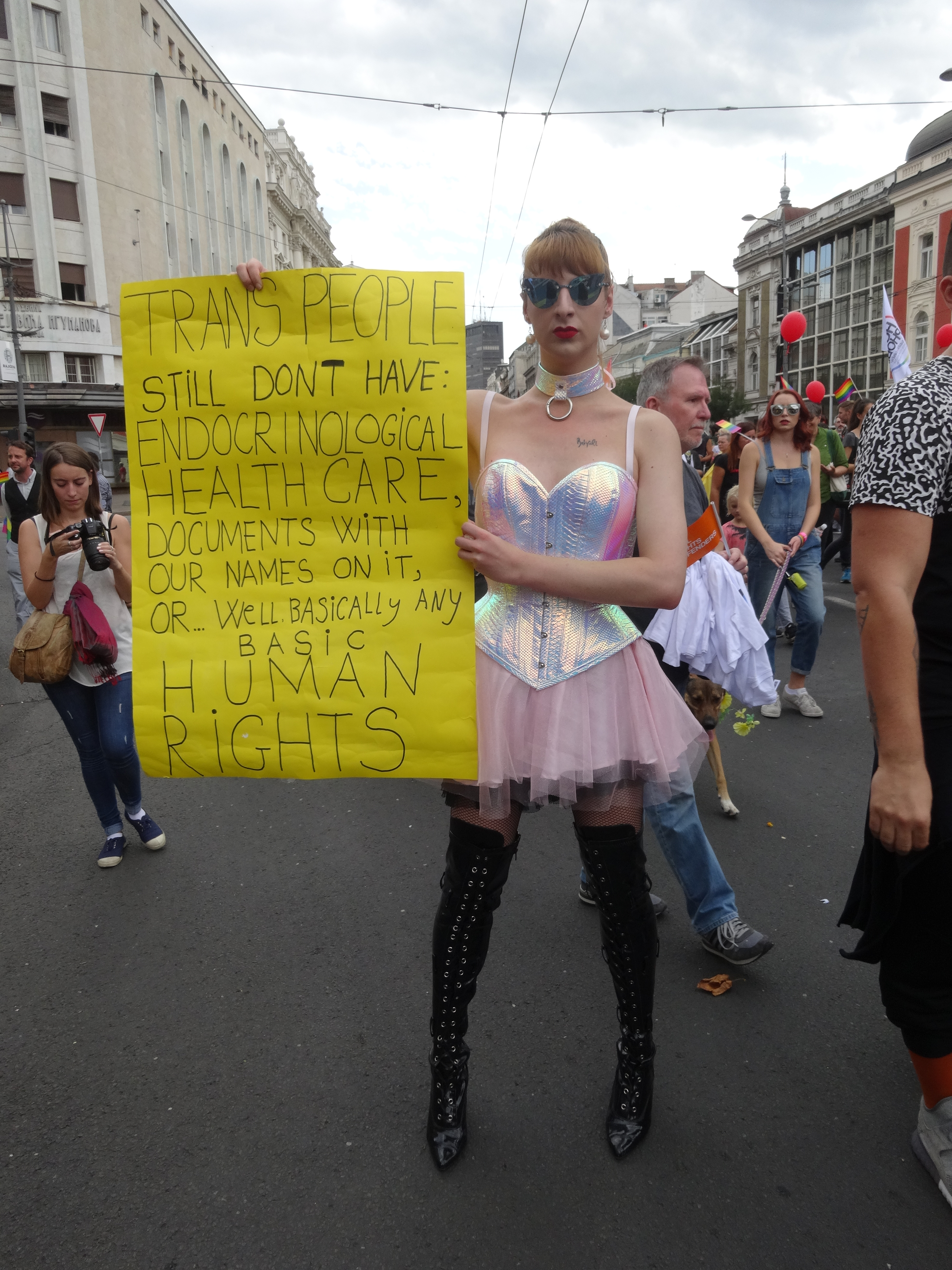 Trans feminist Sonja Sajzor holding a transparent about problems that trans people have in Serbia.